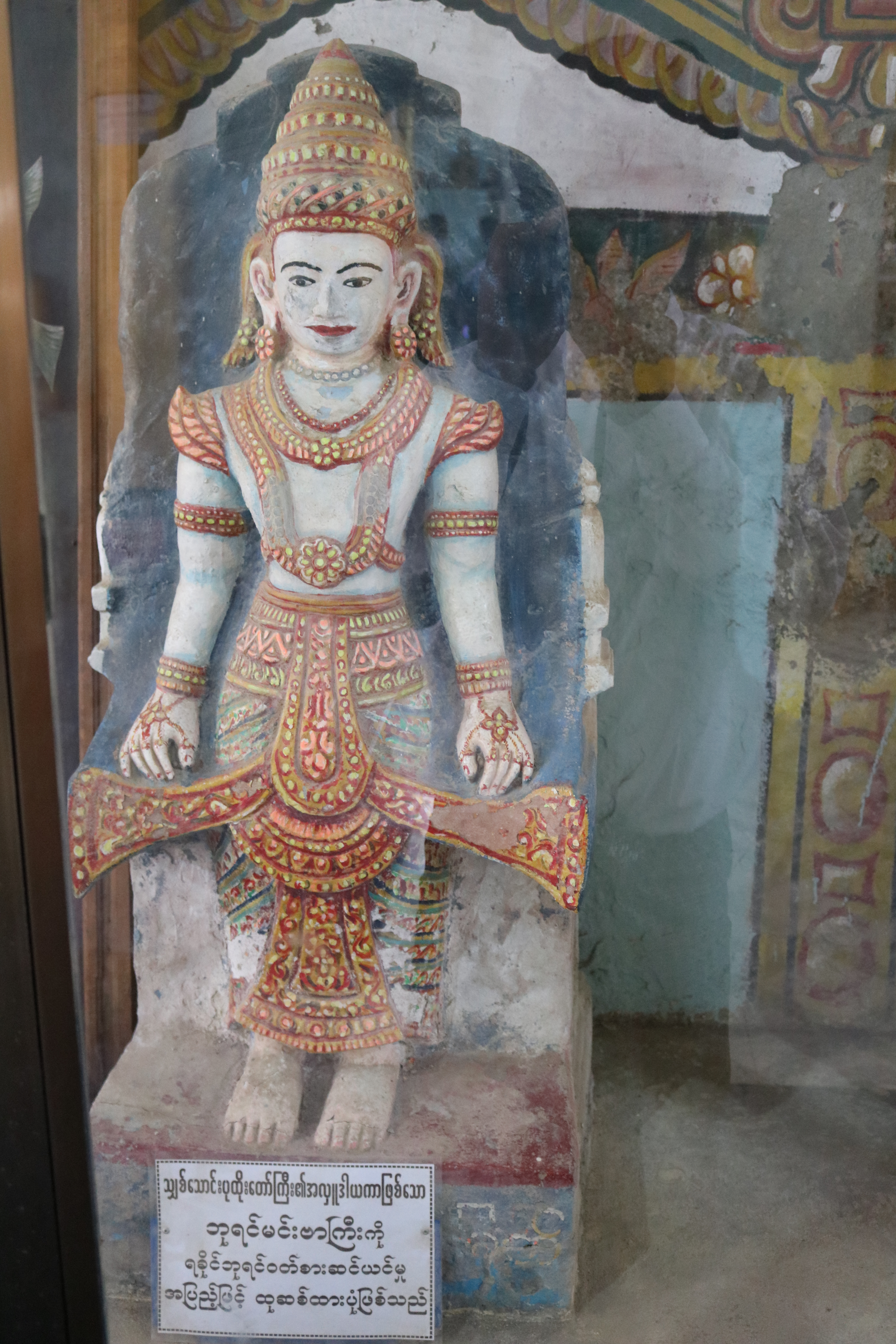 King Min Ban Statue in Shite-thaung Temple